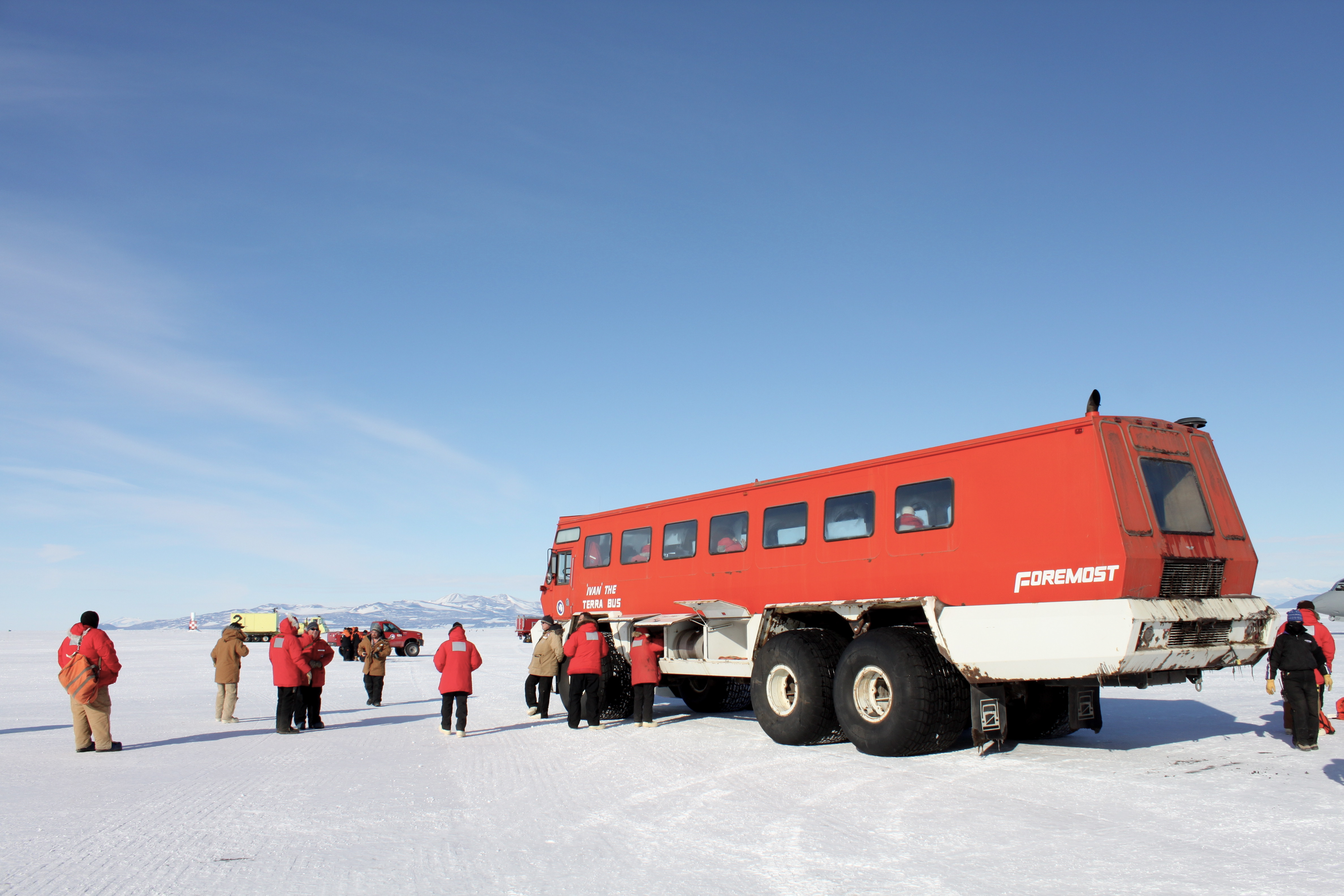 Antarctica: The Flight Back to NZ